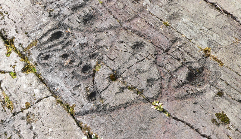 Kilmichael Glassary Cup And Ring Marks, Kilmartin Glen, Scotland - detail